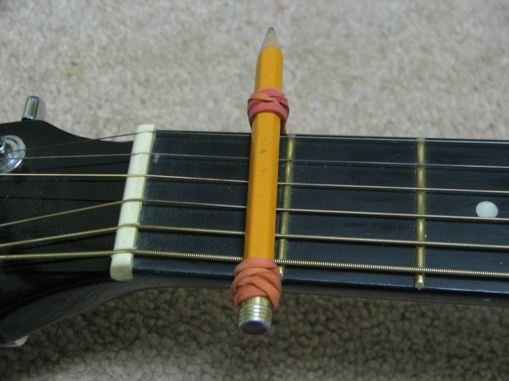 A makeshift guitar capo